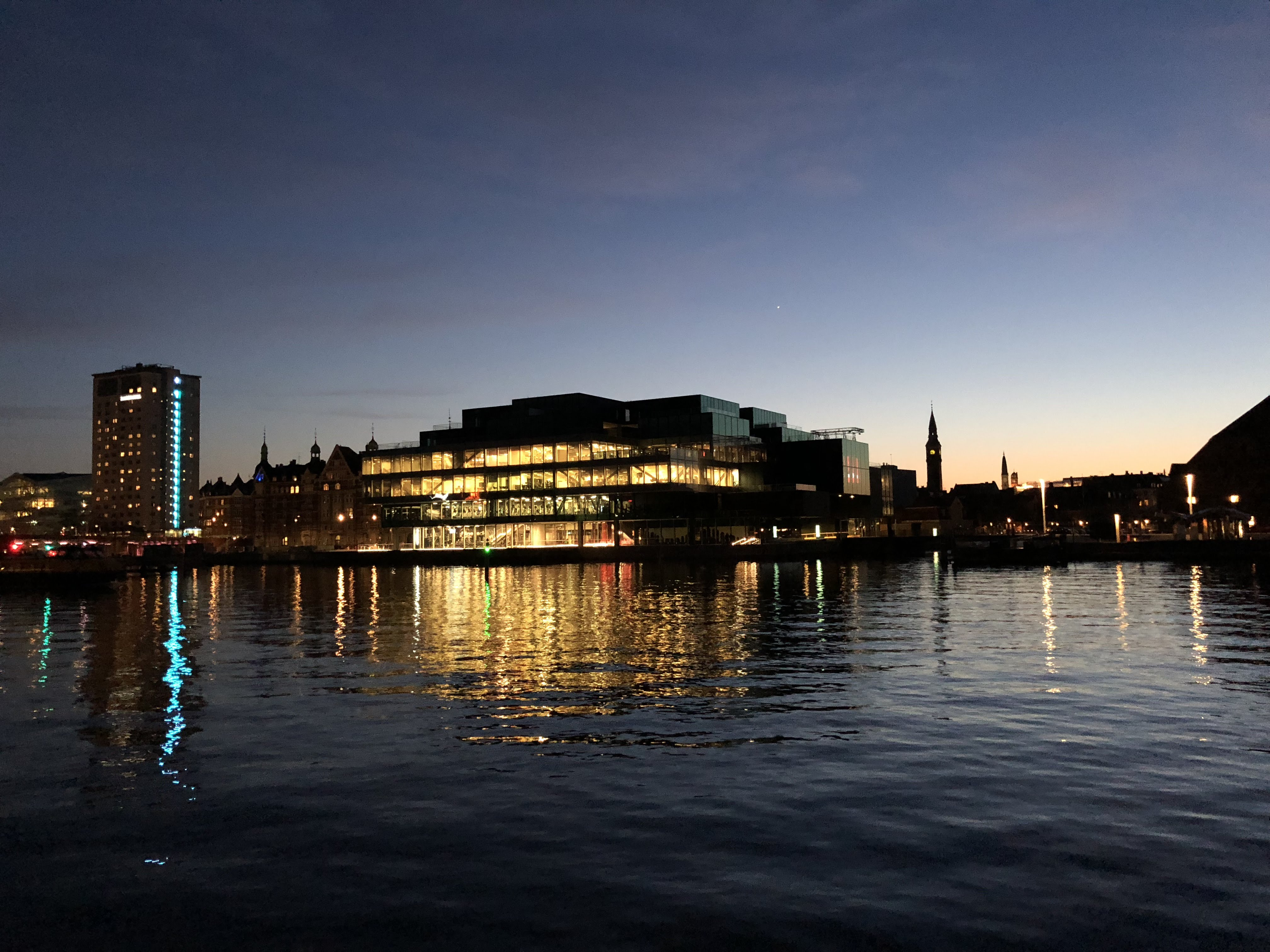 Photo: Thomas Kimer-Jørgensen